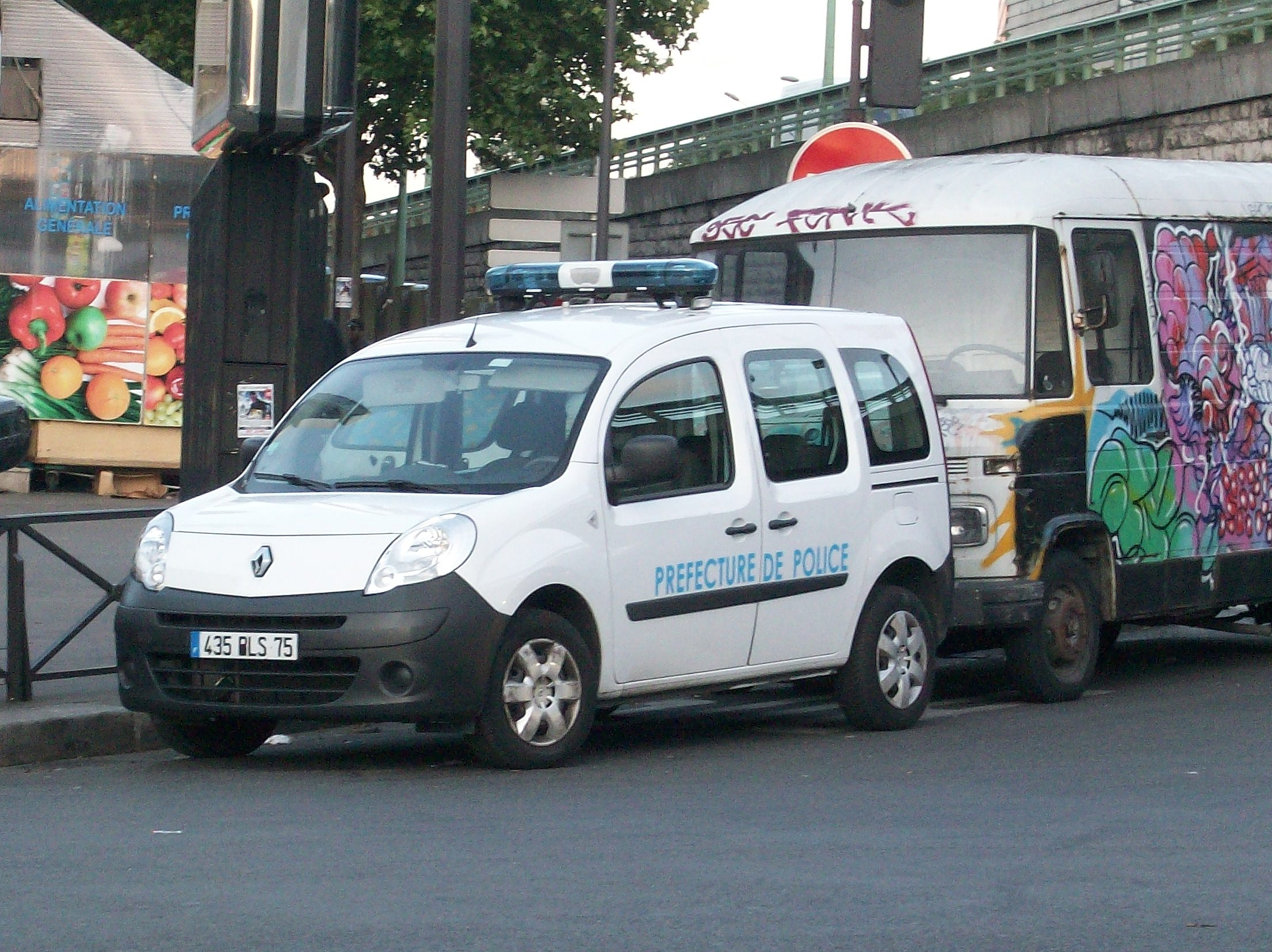 Renault Kangoo of the french Police in Paris, (France).